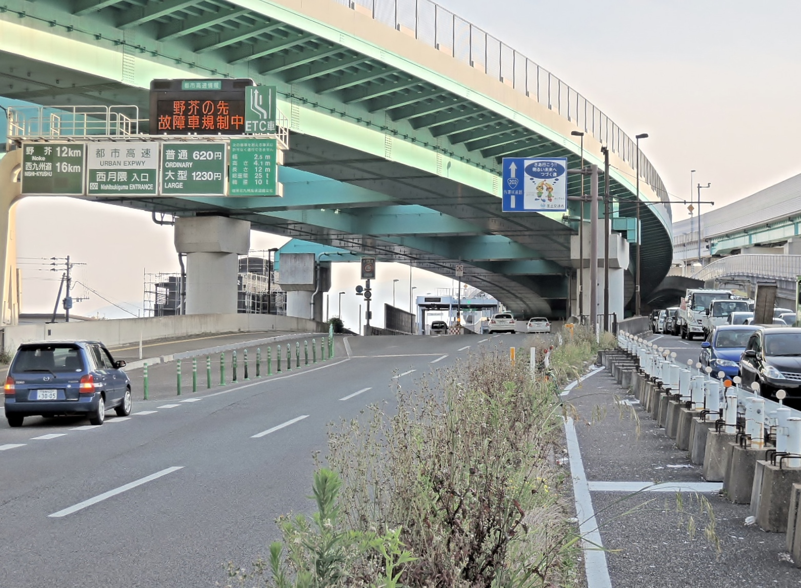 Nishitsukiguma Interchange on the Fukuoka Expressway